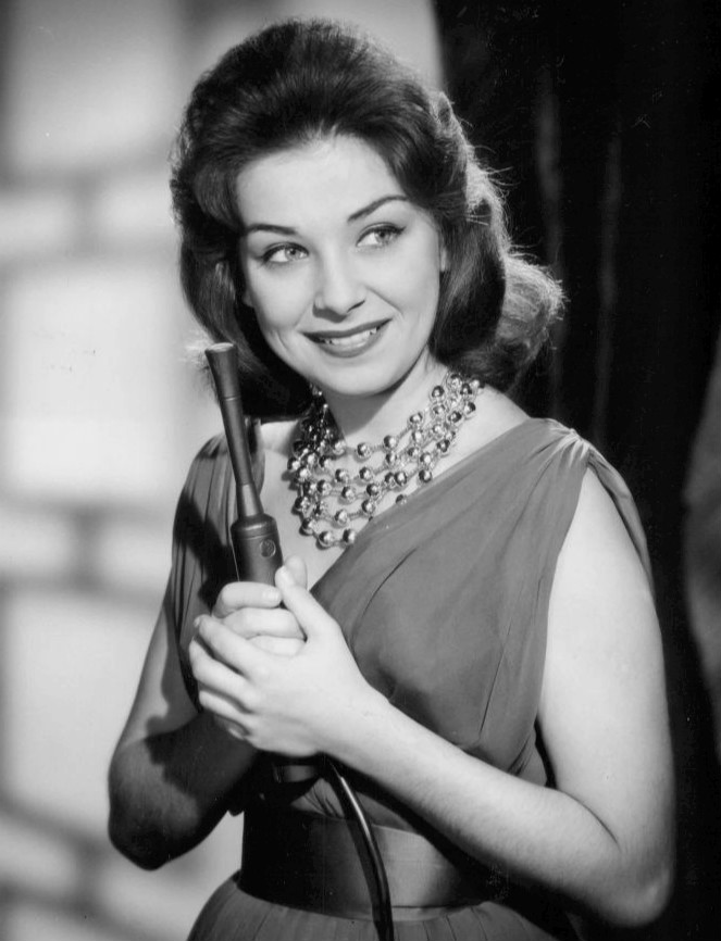 Publicity photo of singer Joanie Sommers as a guest on a Bobby Darin television special.